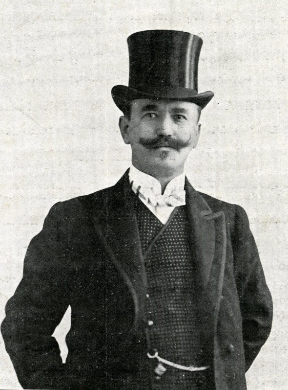 Franz Anton Nöggerath Sr. (1859-1908) - Dutch film pioneer